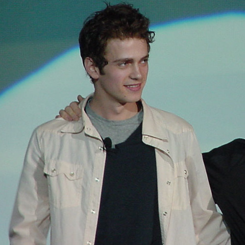 Star Wars Celebration II - Hayden Christensen, Anthony Daniels, and Nick Gillard